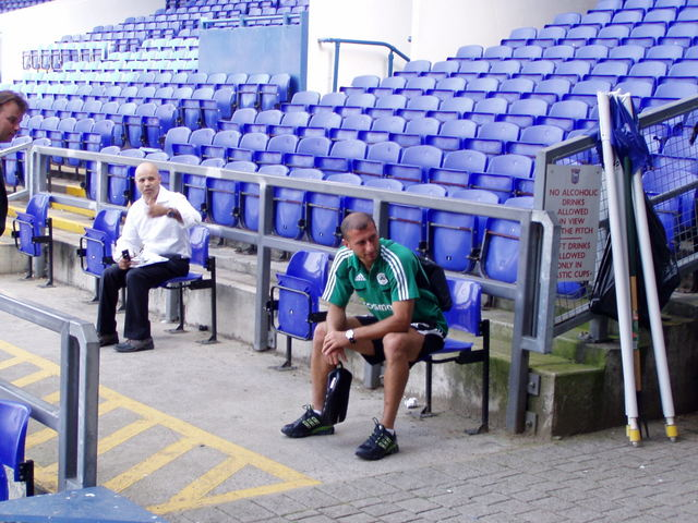 Dimitris Papadopoulos - Panathinaikos FC Footballer before the match Ipswich Town FC - Panathinaikos